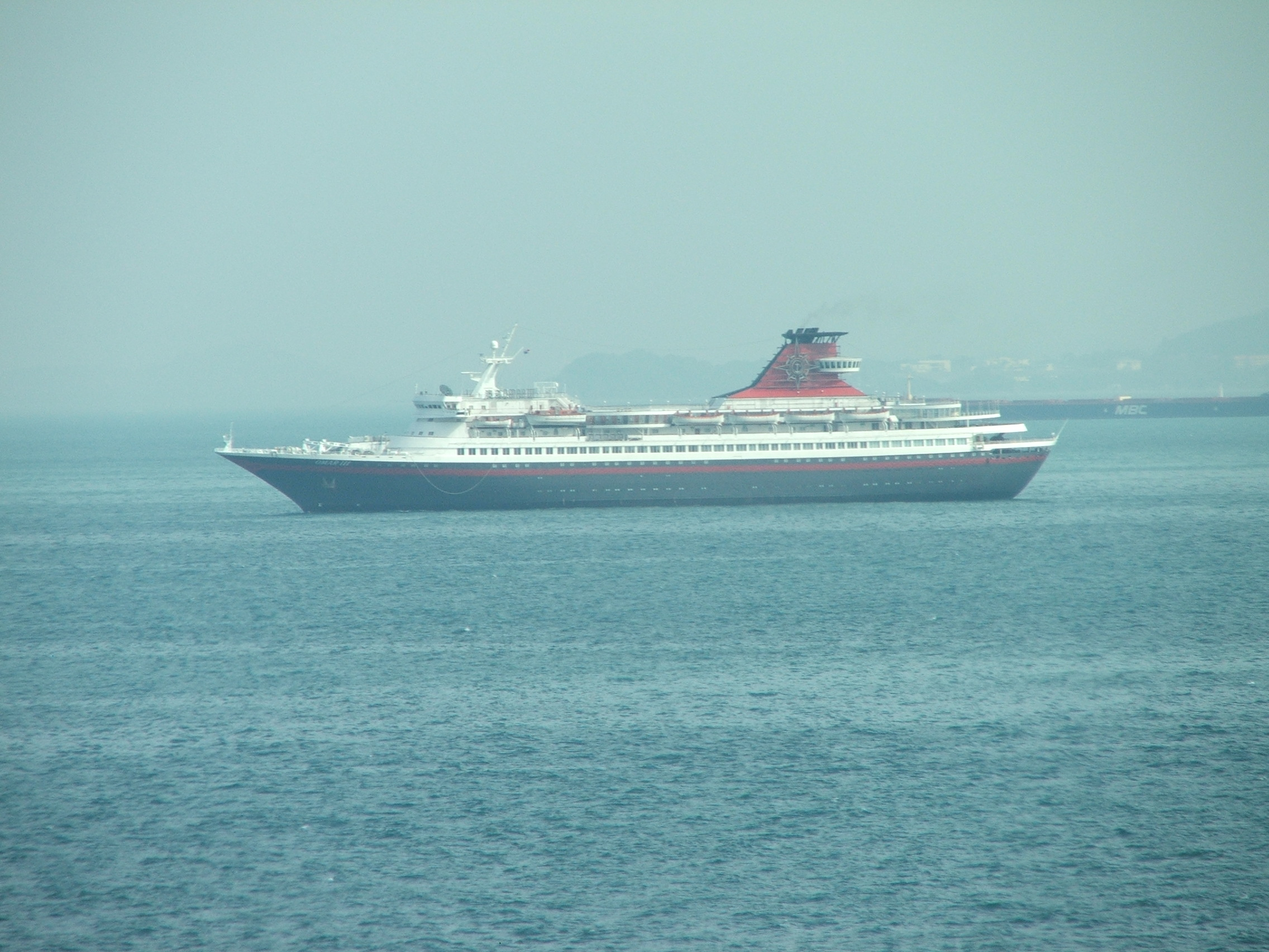 The casino cruise ship Omar III in Singapore